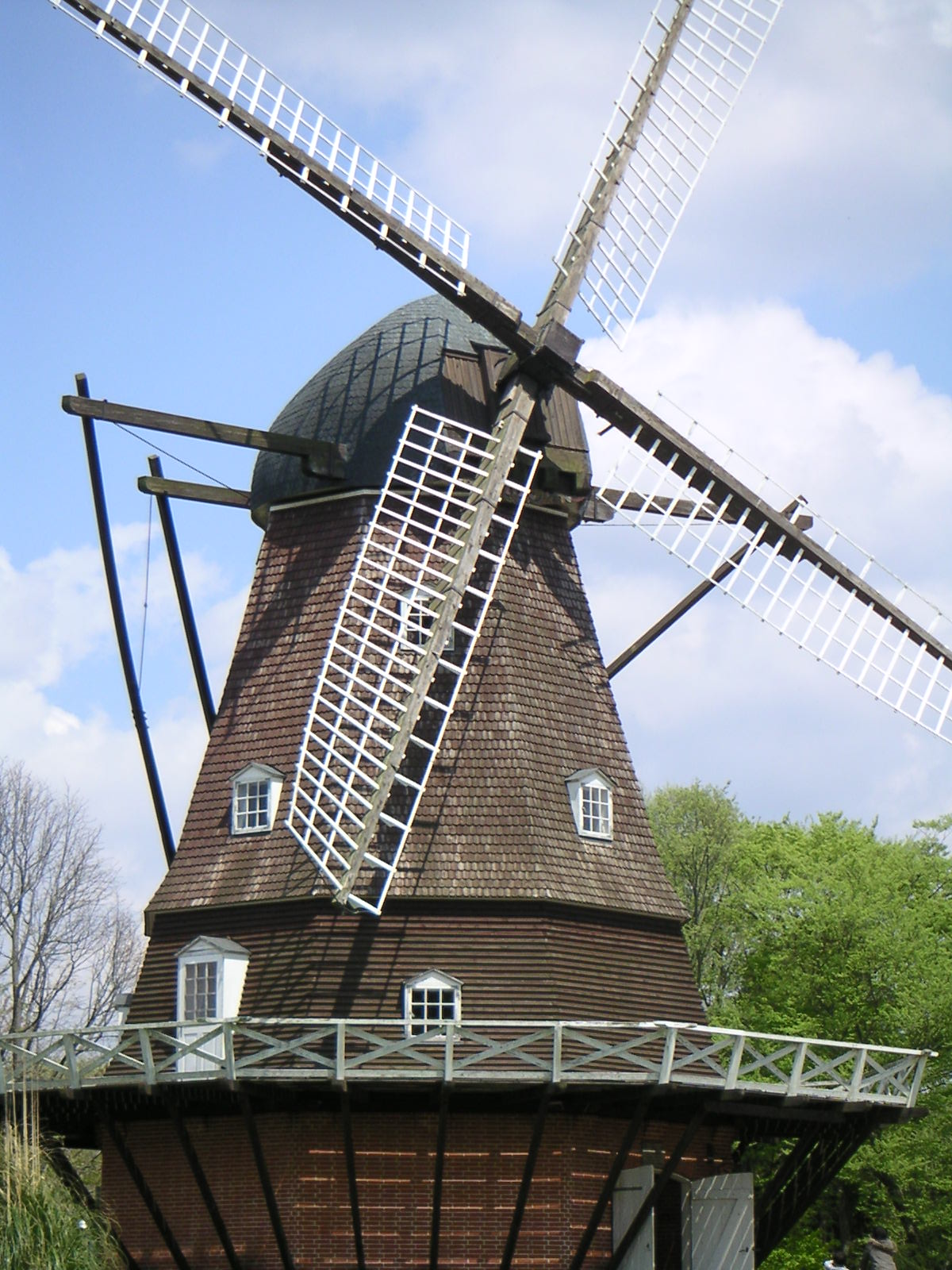 H.C.Andersen Park windmill in Funabashi,Chiba